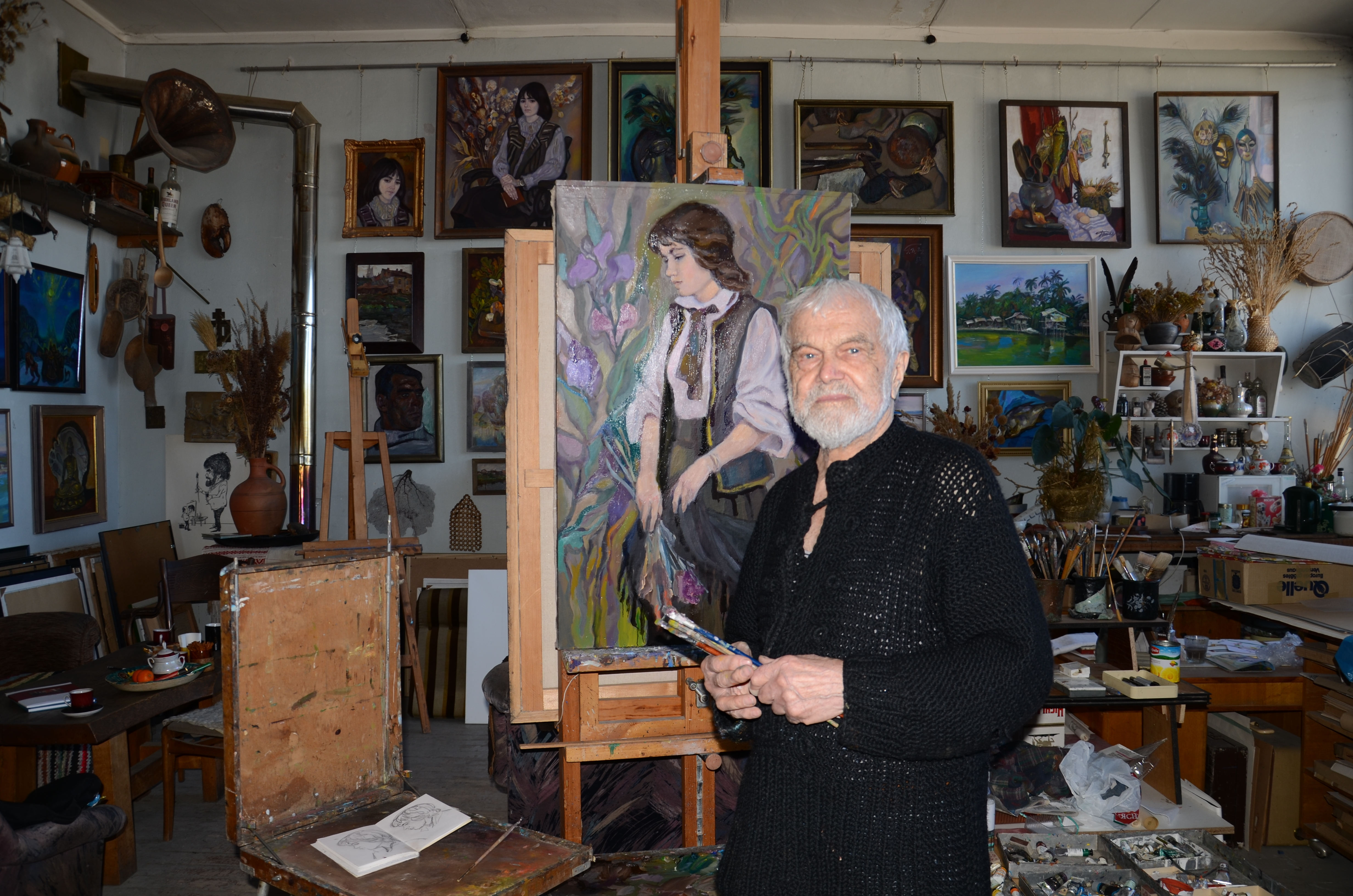 Belarusian artist George Poplawski in his workshop March 12, 2014.